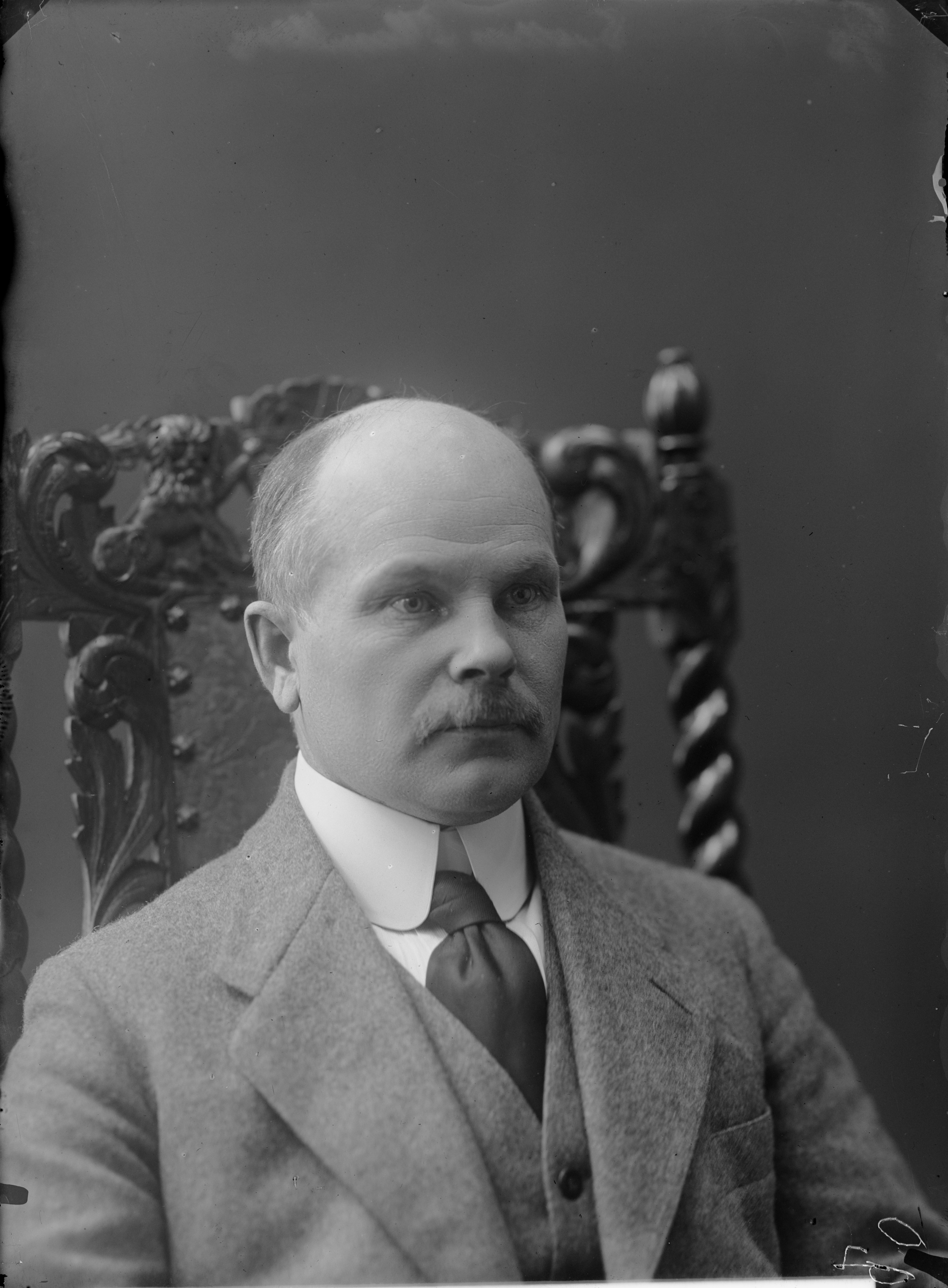 Eemil Halonen, a Finnish sculptor